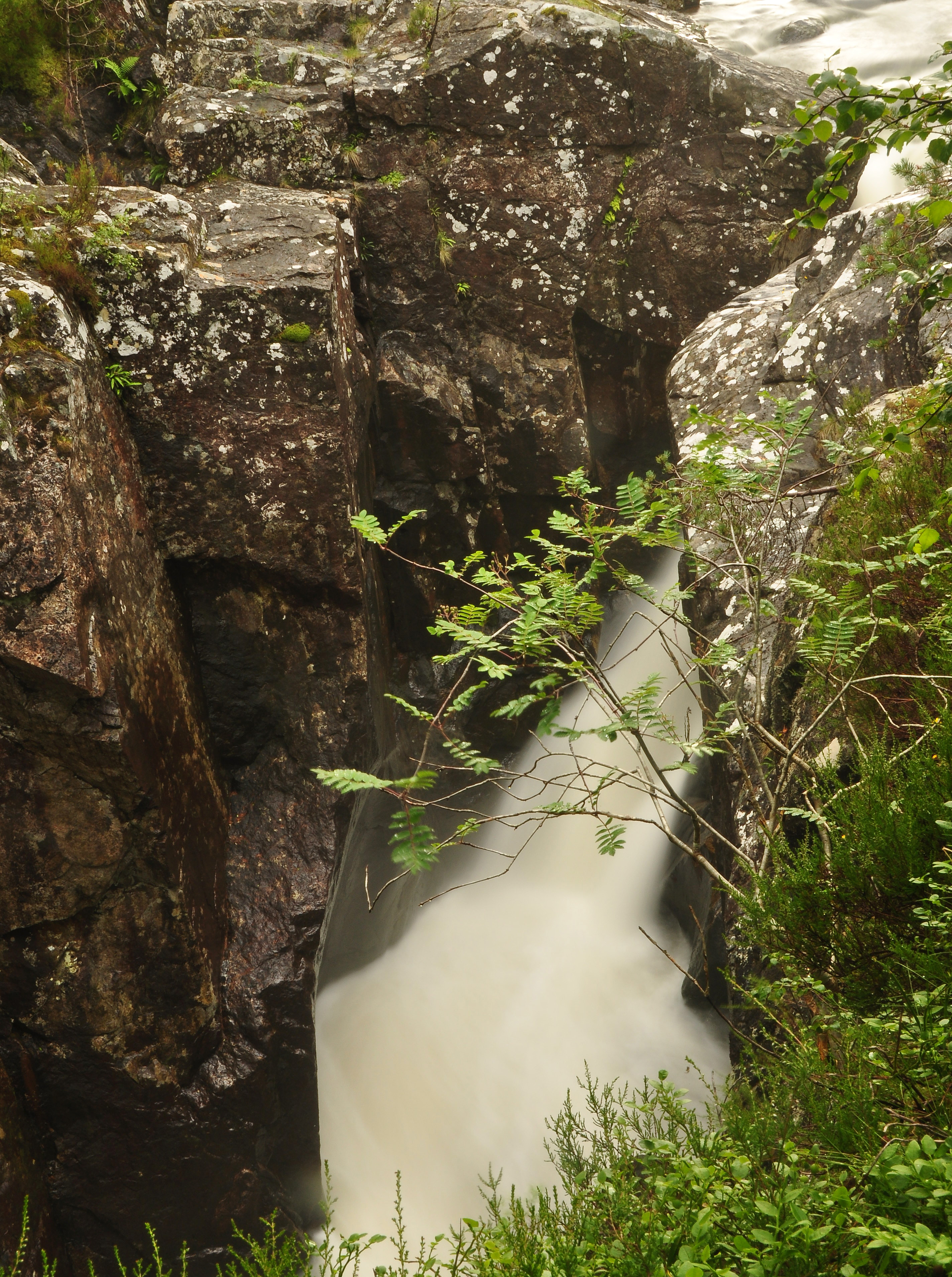 Dog Falls, on the River Affric to the west of Cannich, Scotland